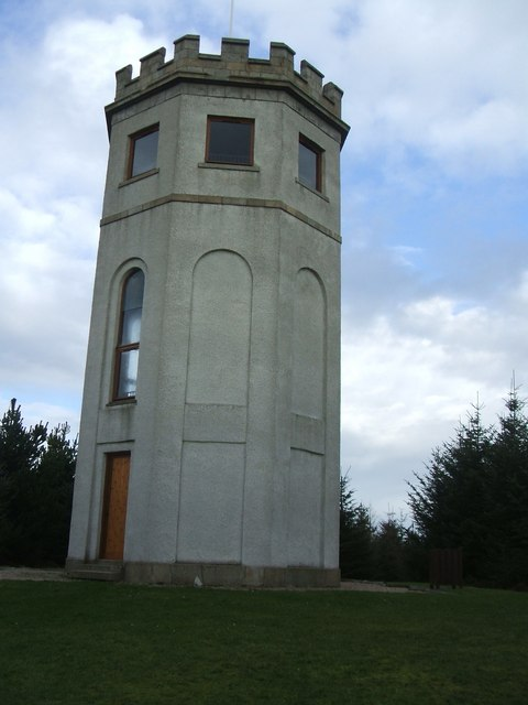 Observatory at Drinnie's Wood, near Fetterangus, Aberdeenshire. The observatory was built for the Laird of Pitfour to watch his racehorses training